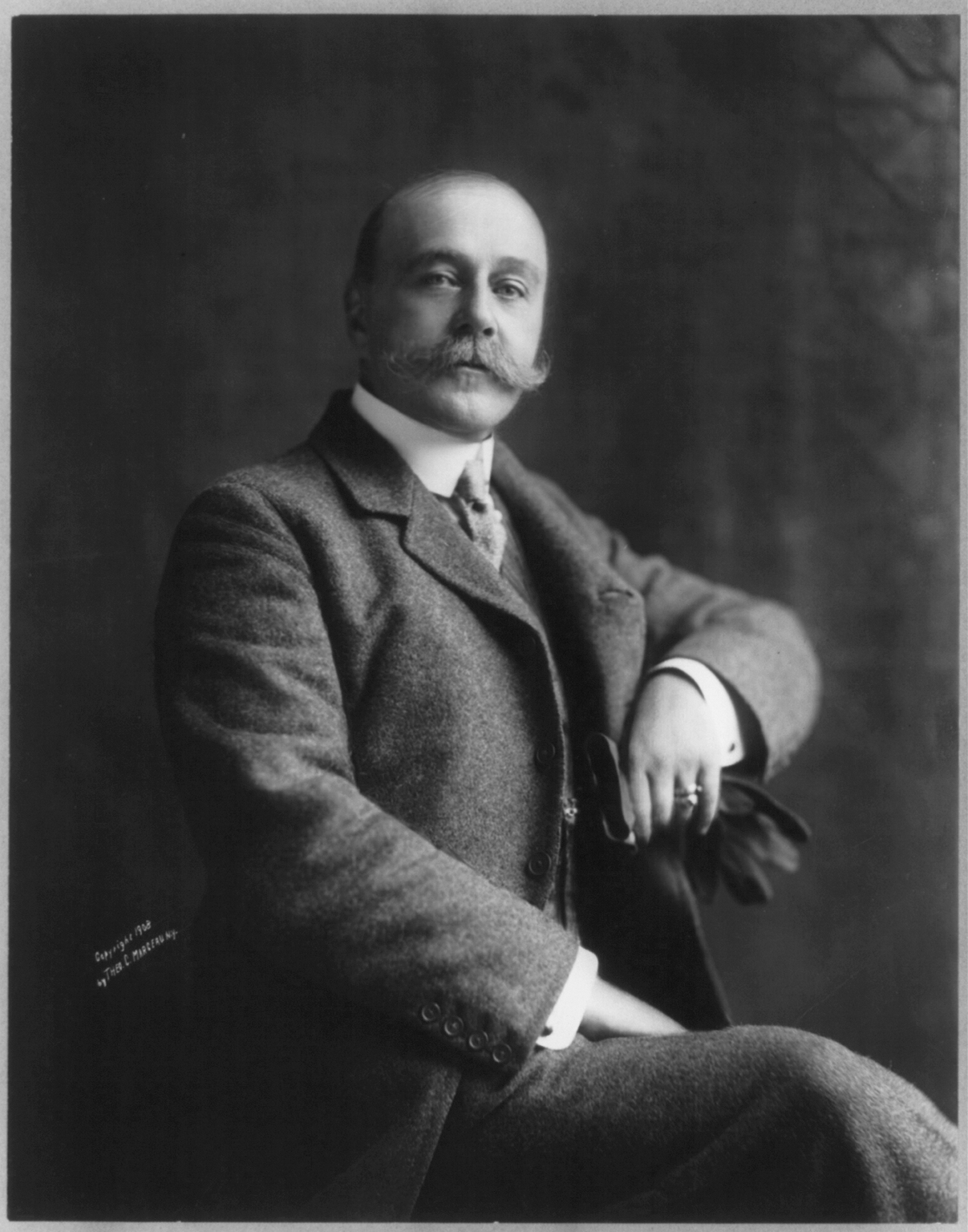 Frederick Townsend Martin circa 1900 Image from the collection of Richard Jay Hutto